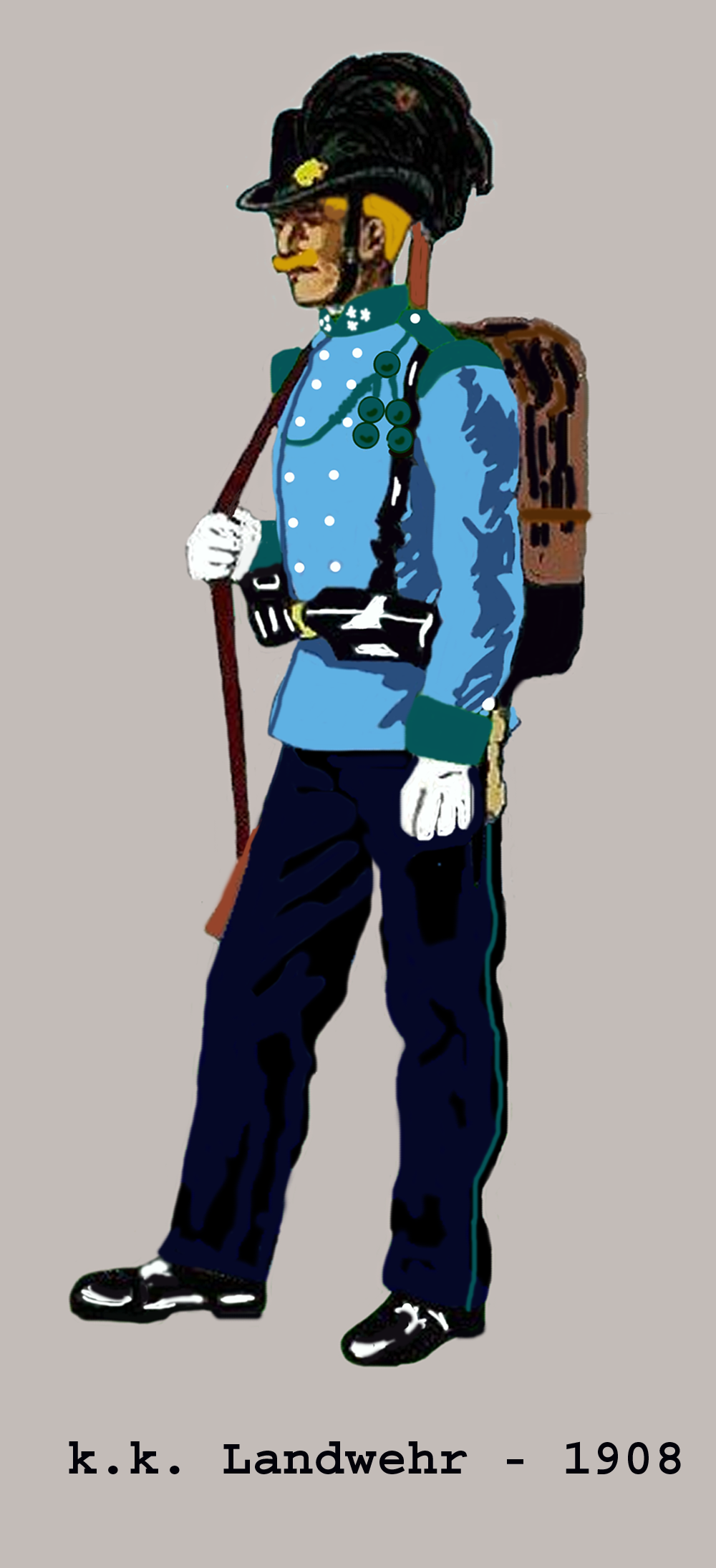 k.k. Austrian Landwehr Infantry. Parade dress before 1908